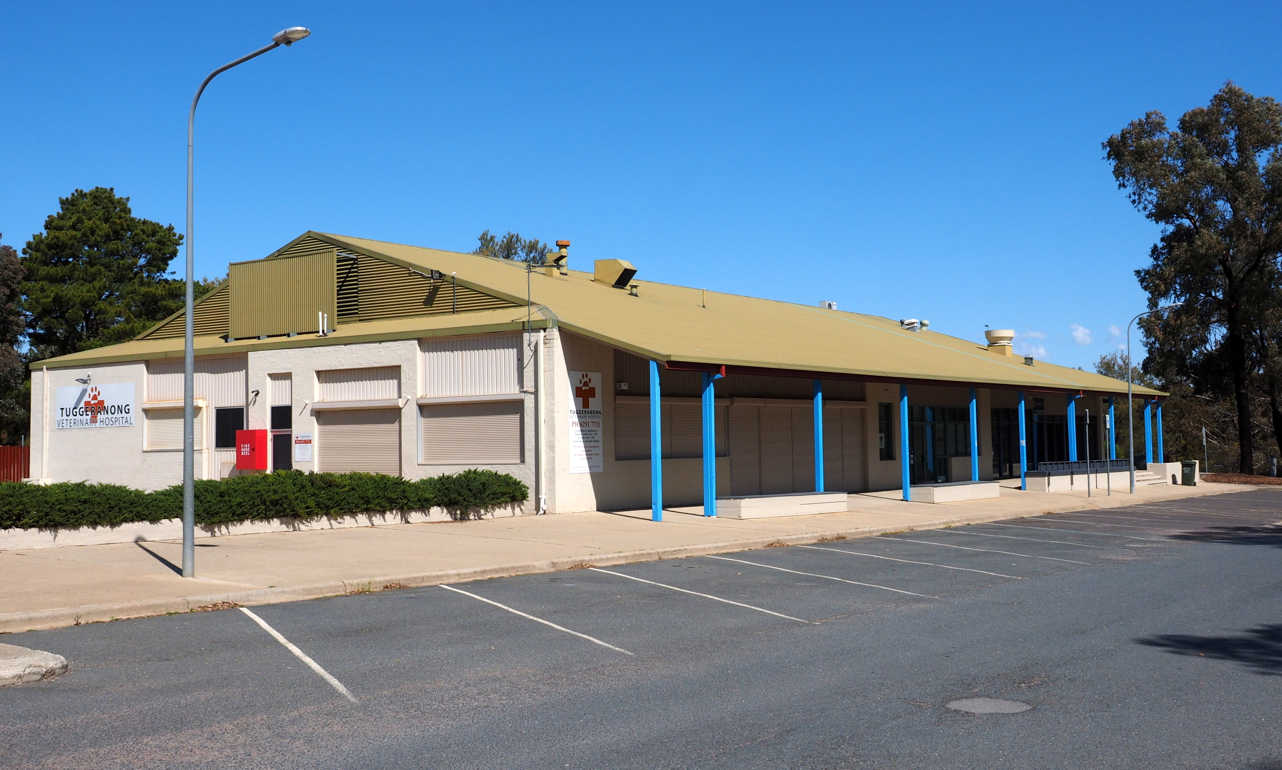 Fadden shops on a weekend